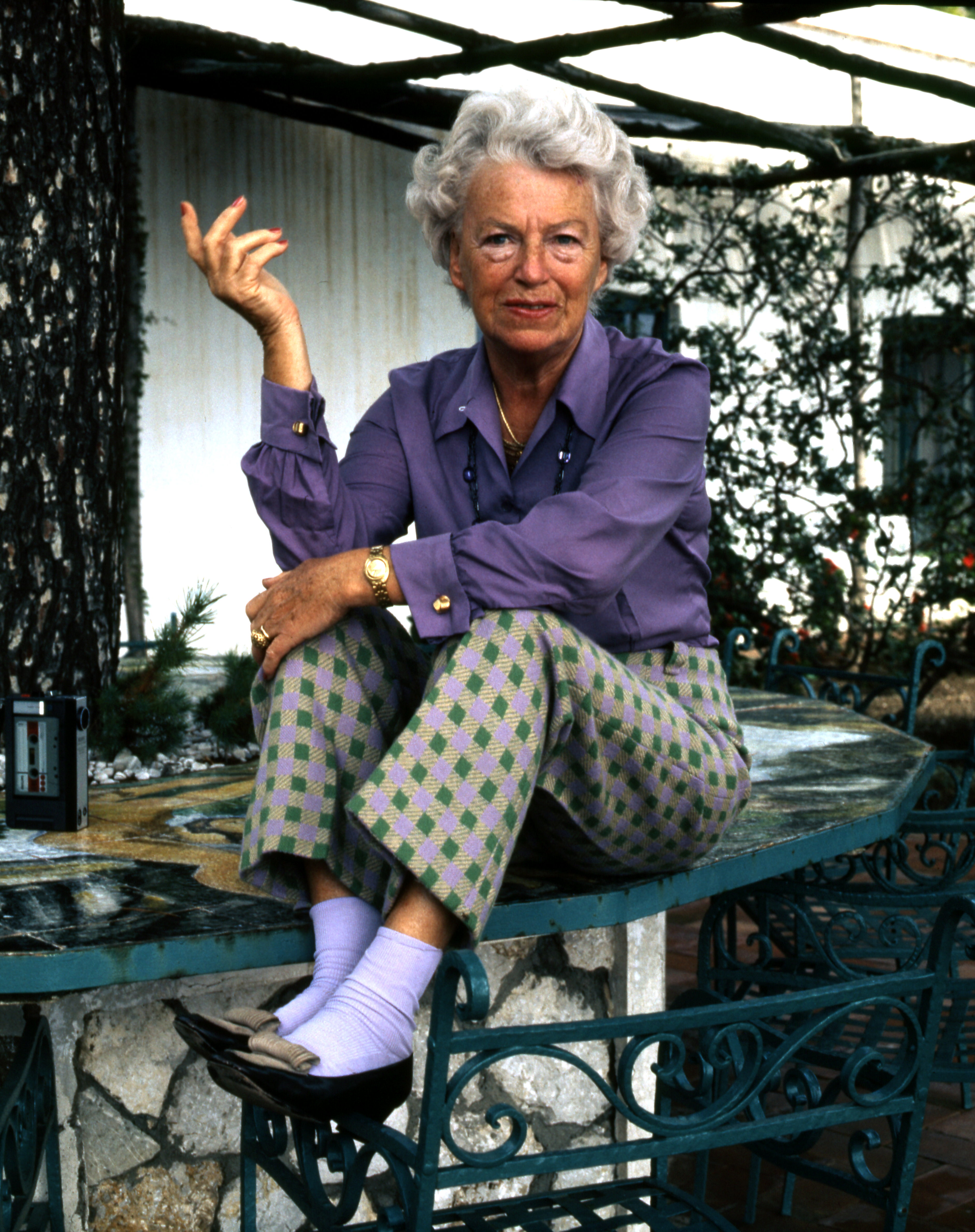 Portrait of Dame Gracie Fields